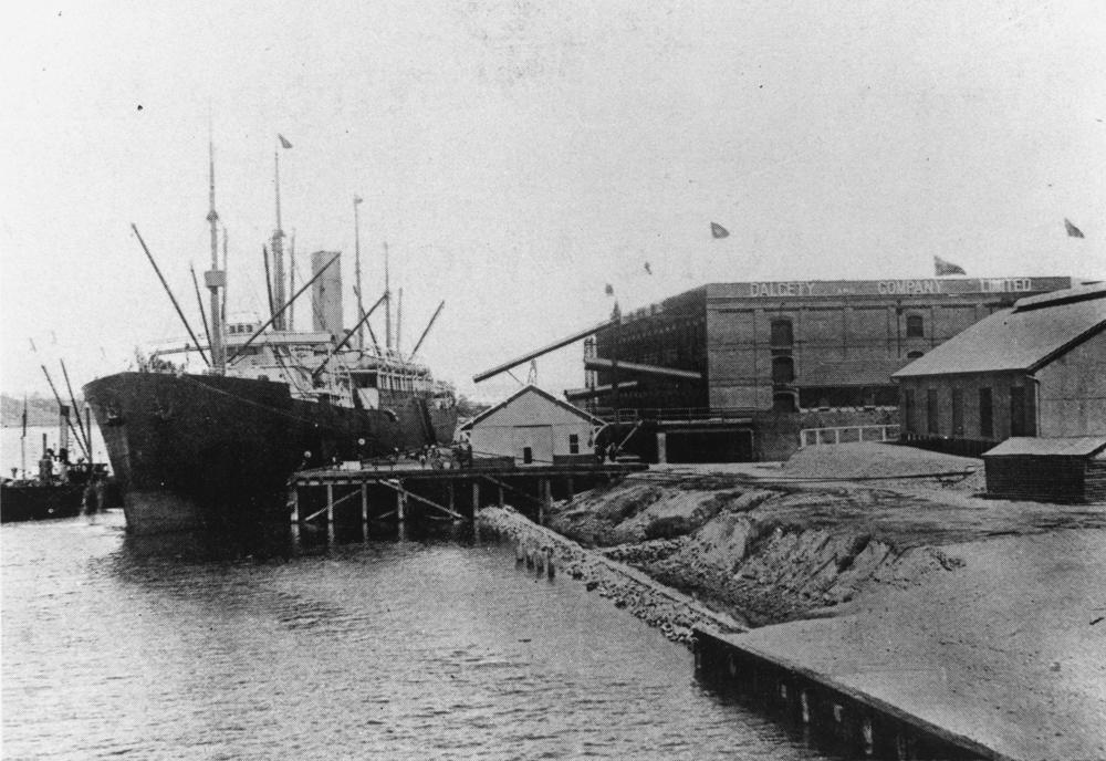 Cargo ship Pericles at Dalgety & Co's Wharf, New Farm, Brisbane, 1908. Caption under photograph reads: Shipping in the Bulimba Reach, Brisbane. The S.S. Pericles at Dalgety & Co's Wharf.